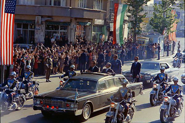 President Nixon in Tehran, 1972